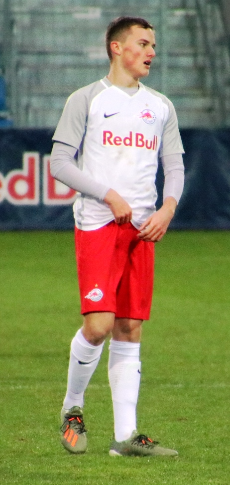 Group stage 6th round